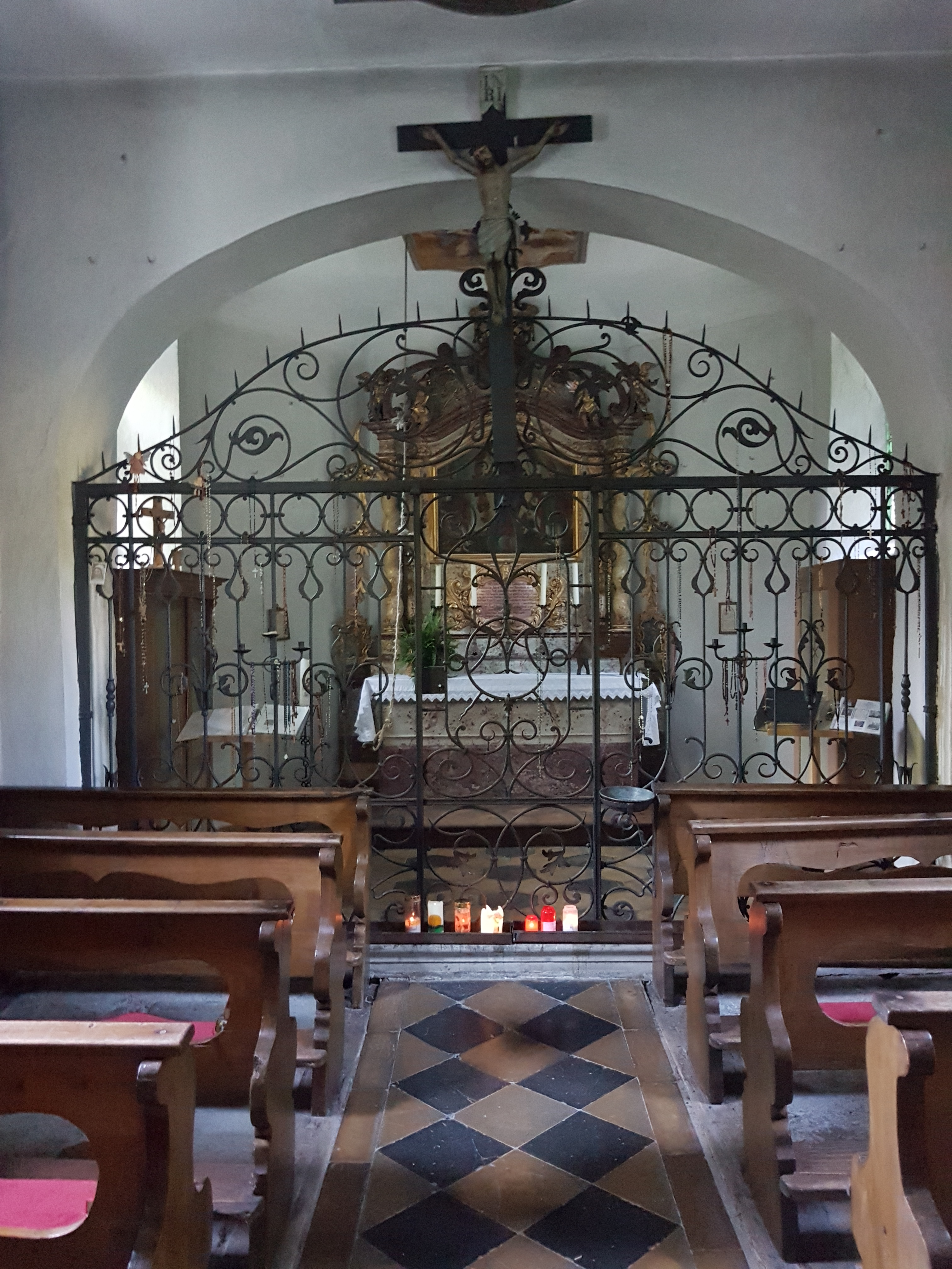 Pilgrimage chapel Kuehbruck (Our Lady of the Rosary) in the municipality of Nenzing, Vorarlberg, Austria. Built in 1806. Altar. There are about 30 or 40 people in the chapel a seat.